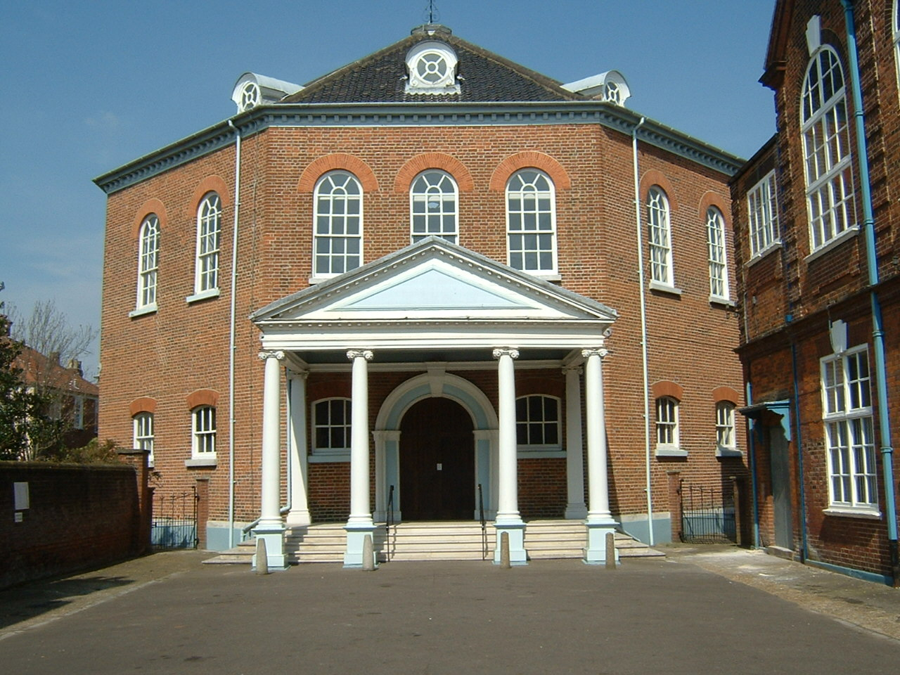 Author: Cameron Self